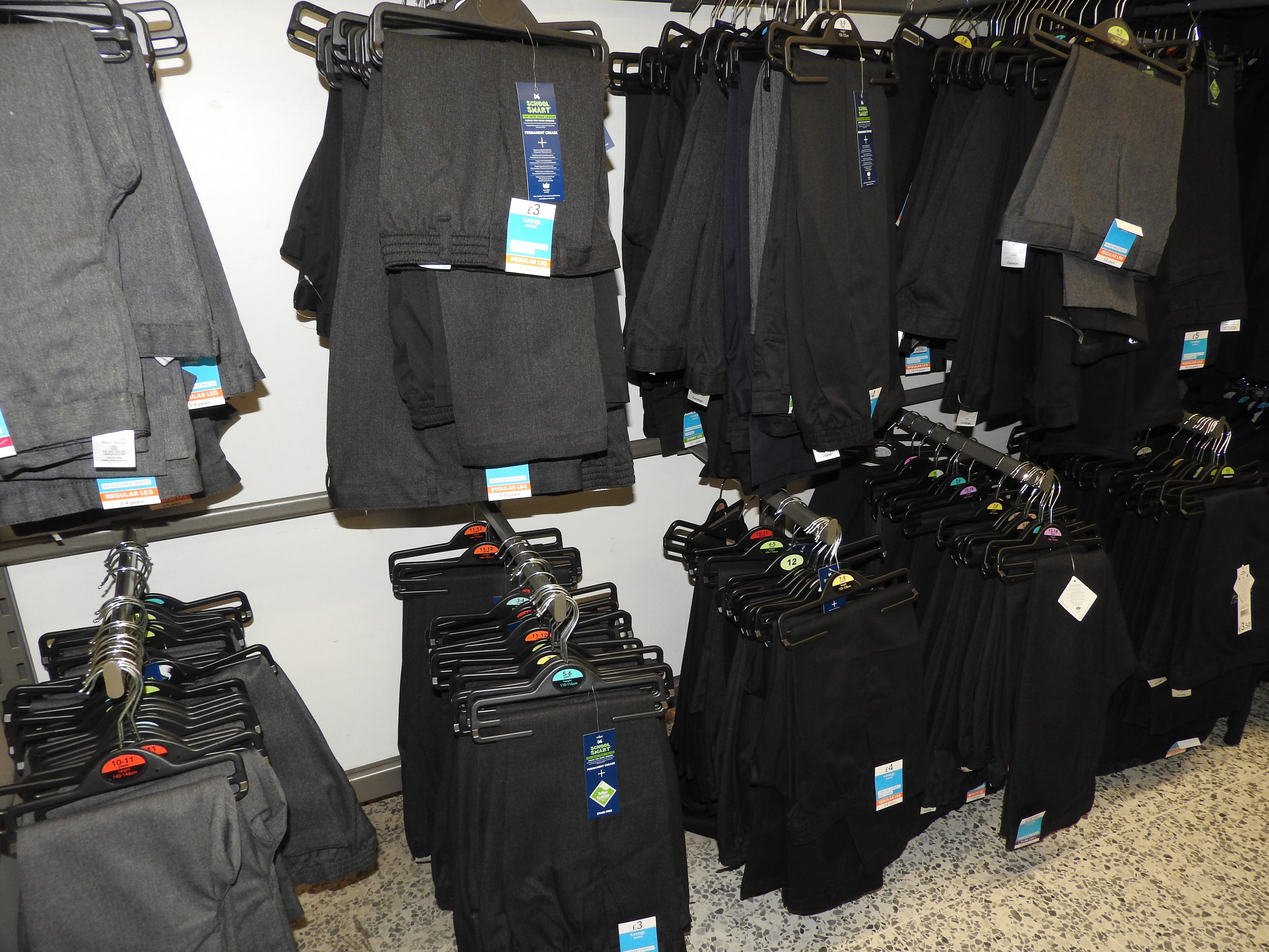 Generic school wear in Hyson Green, Nottingham, UK